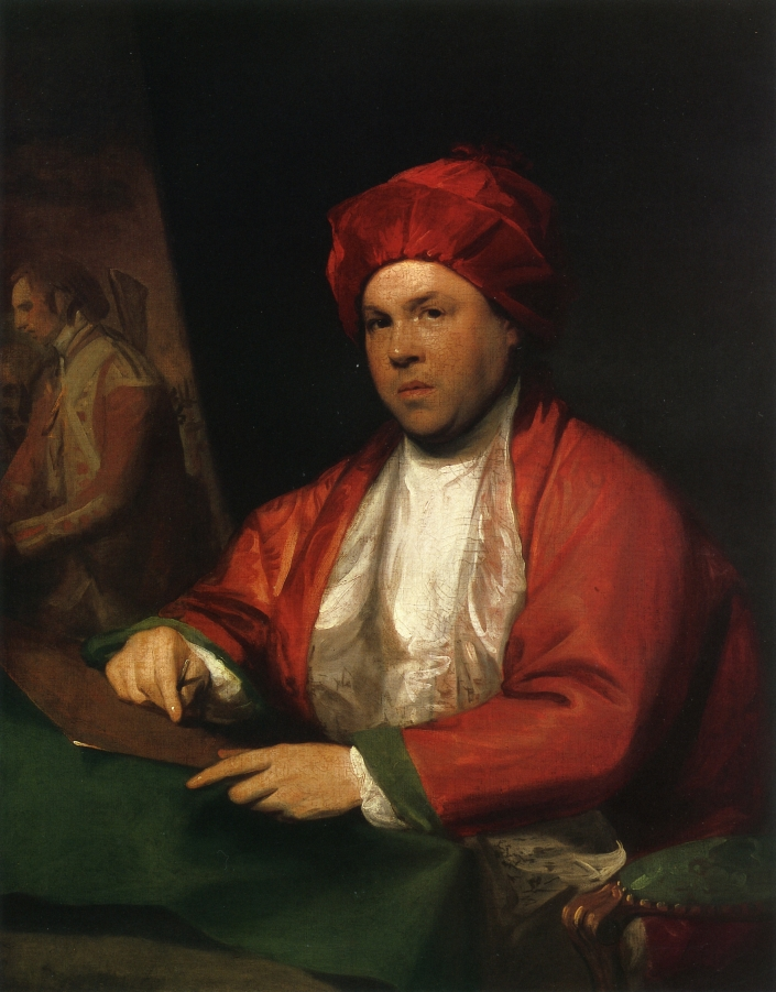 "William Woollett," oil on canvas, by the American artist Gilbert Stuart. 35.5 in. x 27.75 in. Courtesy of the Tate Britain. Image courtesy of The Athenaeum.